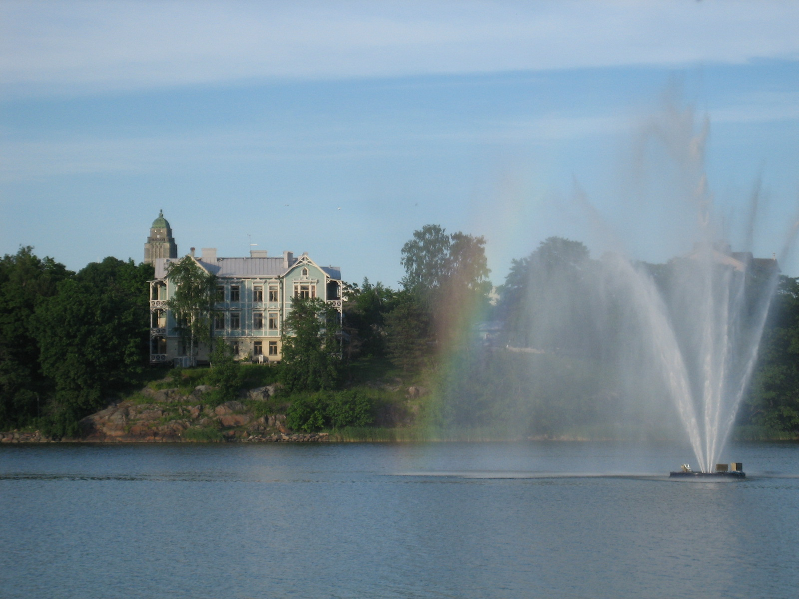 Blue villa of Linnunlaulu beside Töölönlahti, Helsinki. With Kallio Church in the background